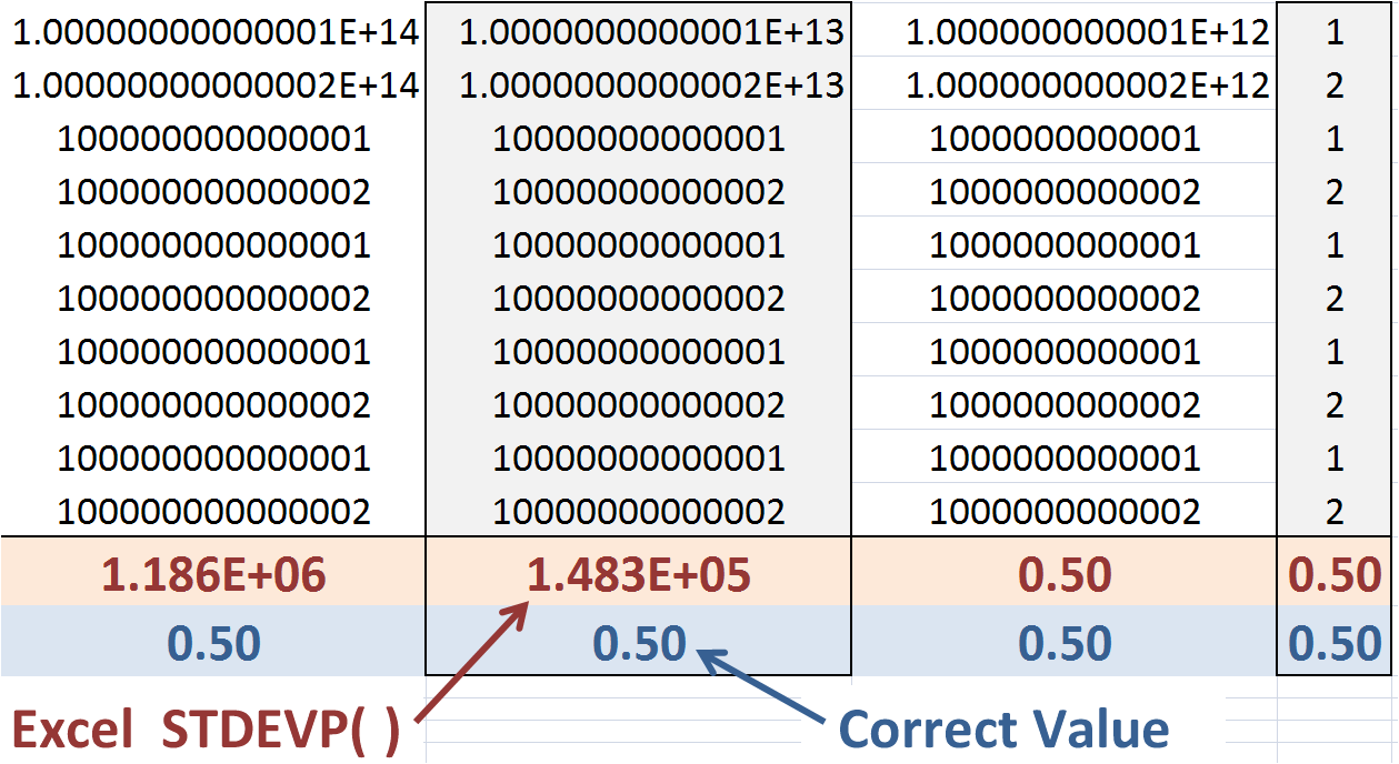 Error using standard deviation function in Excel 2007